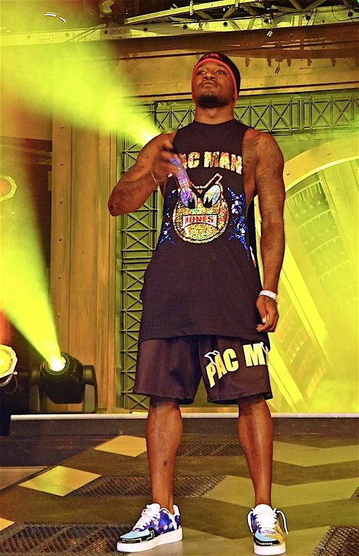 Pac Man Jones in the TNA Impact Zone Orlando Florida Photo by Rob Beukema